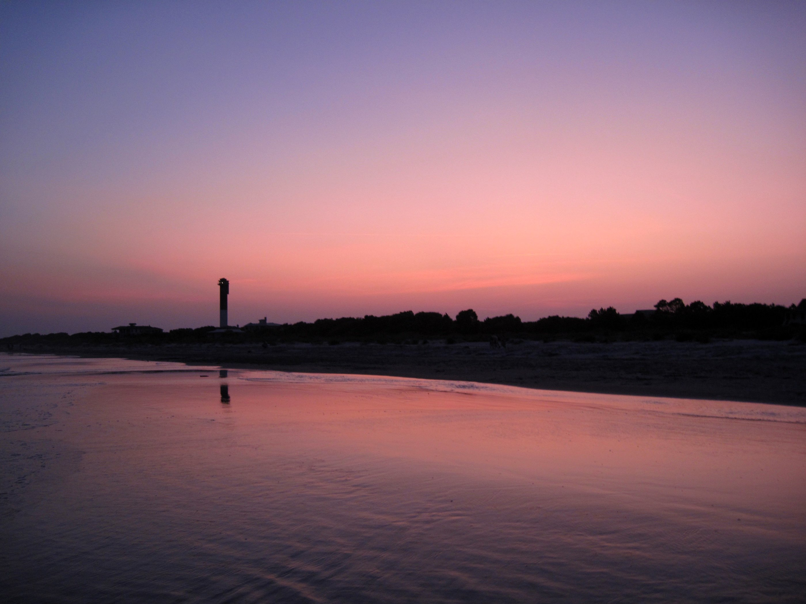 Sullivan's Island, SC - Beach at Dusk